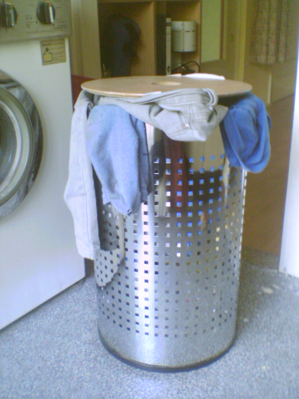 Full laundry bin.